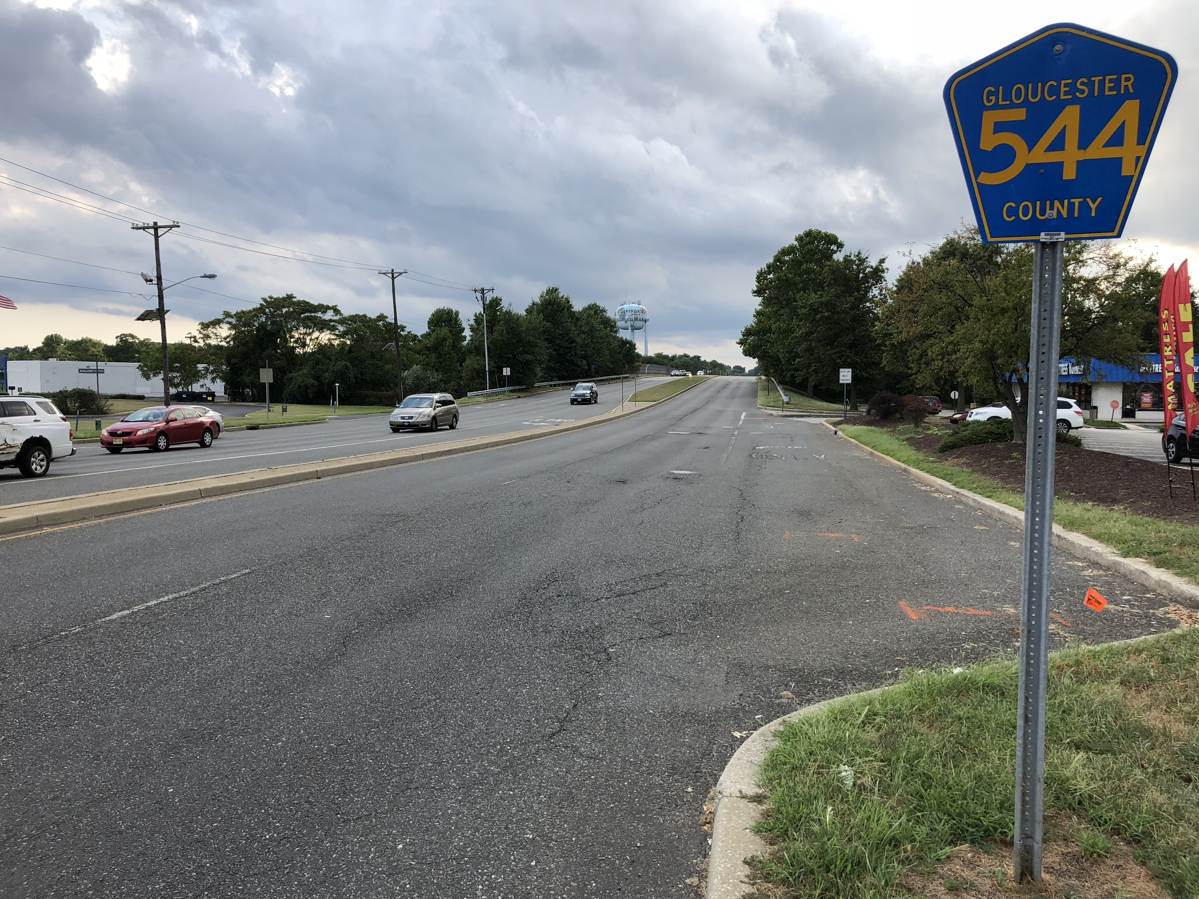 View west along Gloucester County Route 544 (Clements Bridge Road) just west of Gloucester County Route 621 (Almonesson Road) in Deptford Township, Gloucester County, New Jersey